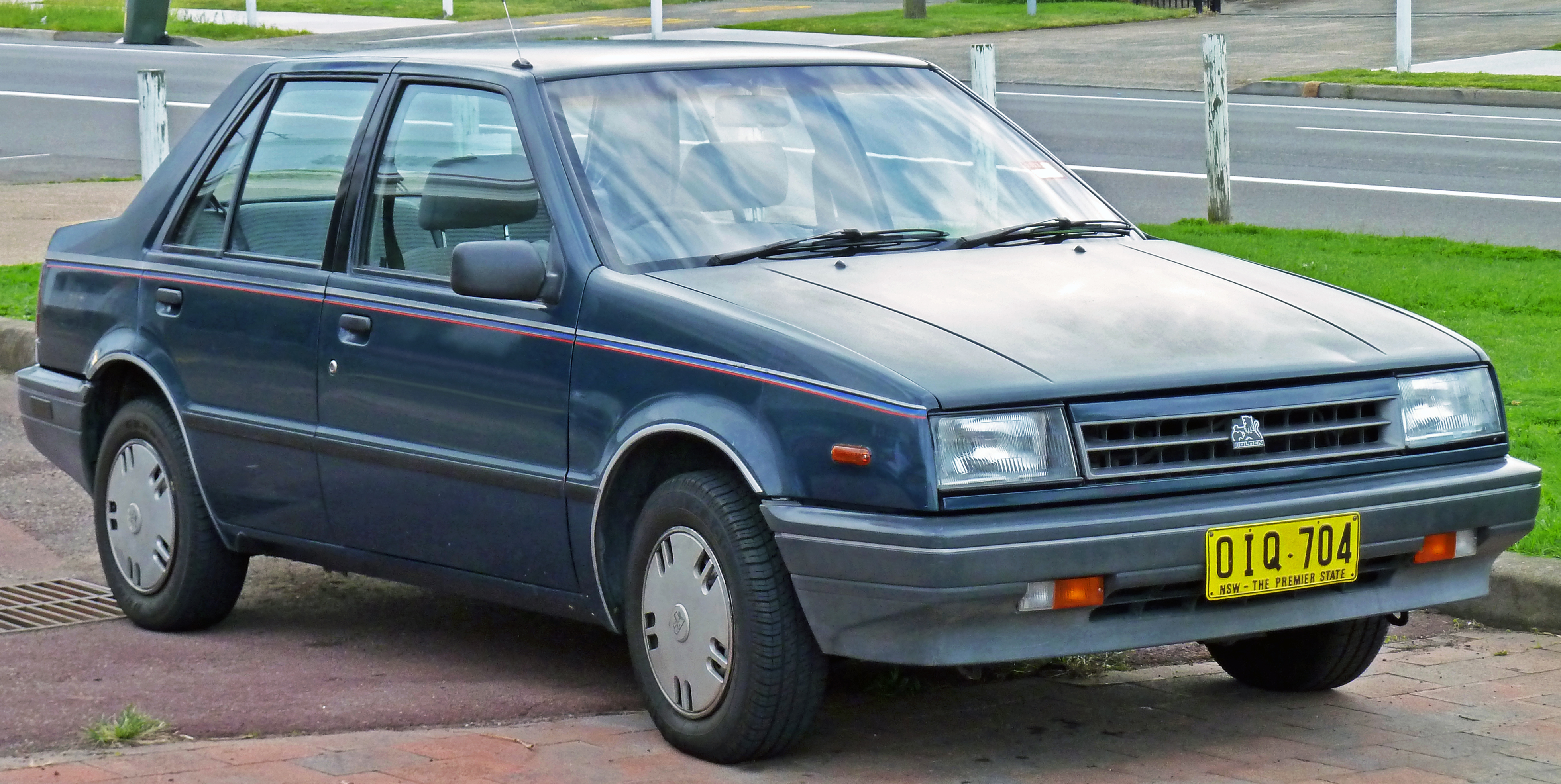 1986 Holden Gemini (RB) SL/X sedan. Photographed in Kirrawee, New South Wales, Australia.